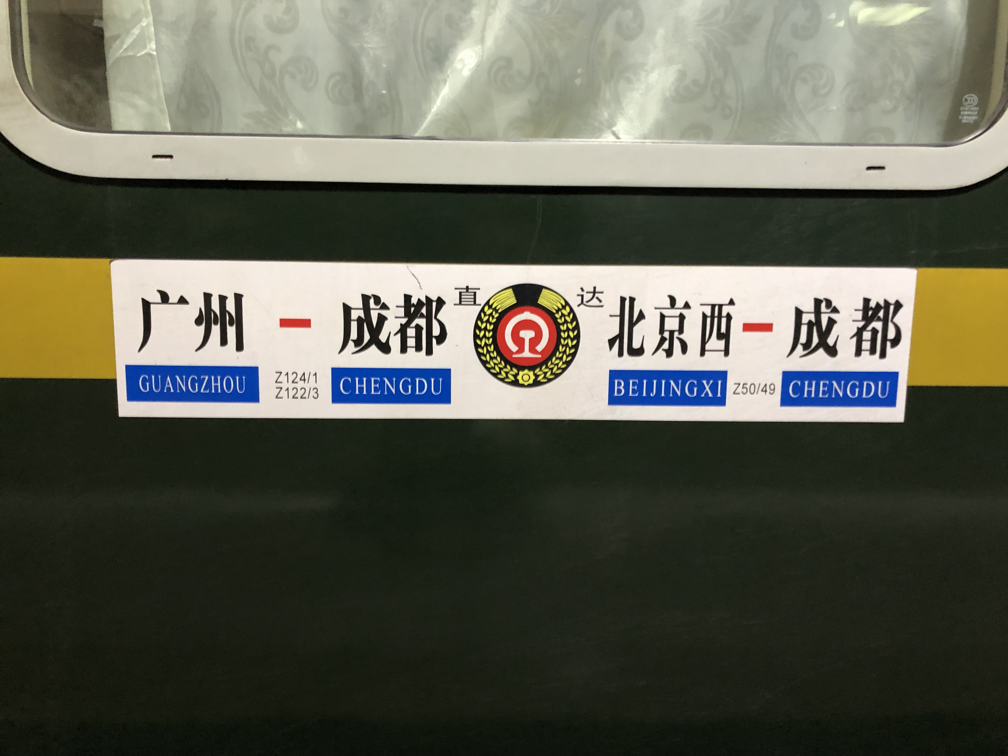 Board of Z49-50 and Z121-122-123-124, taken at Guangzhou station.